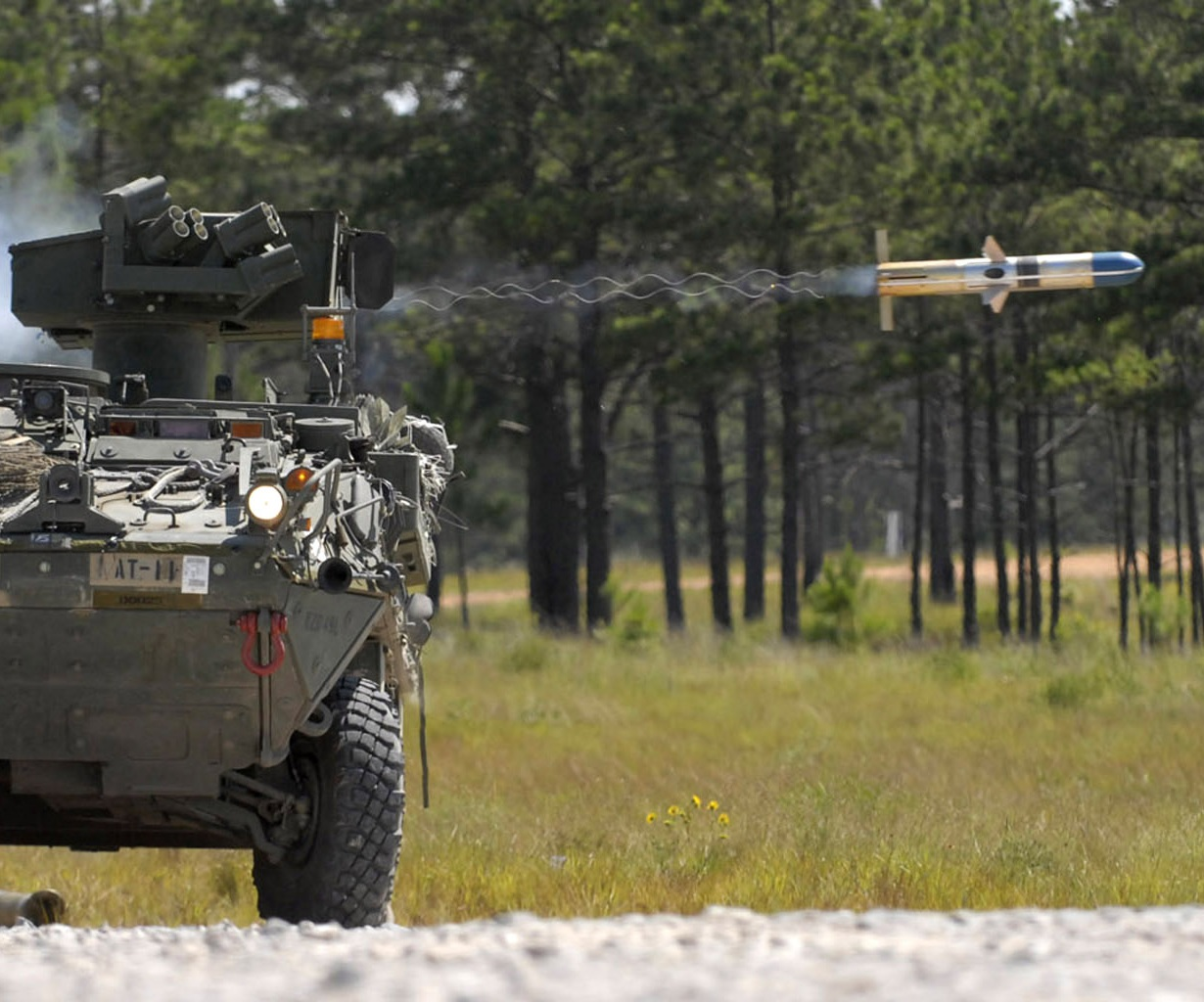 A Stryker vehicle crew belonging to the 4th Brigade, 2nd Infantry Division, fires a TOW missile during the brigade's rotation through Fort Polk's, Joint Readiness Training Center.